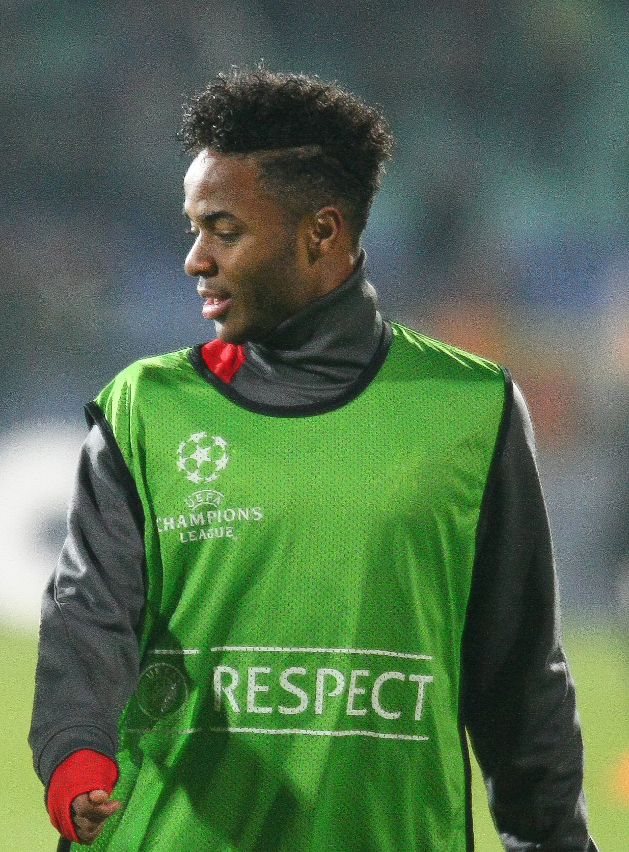 Raheem Sterling - Jamaican-born English professional footballer who plays as a winger and attacking midfielder for Premier League club Liverpool and the England national team.